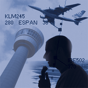 Artistic picture of Air Traffic Control